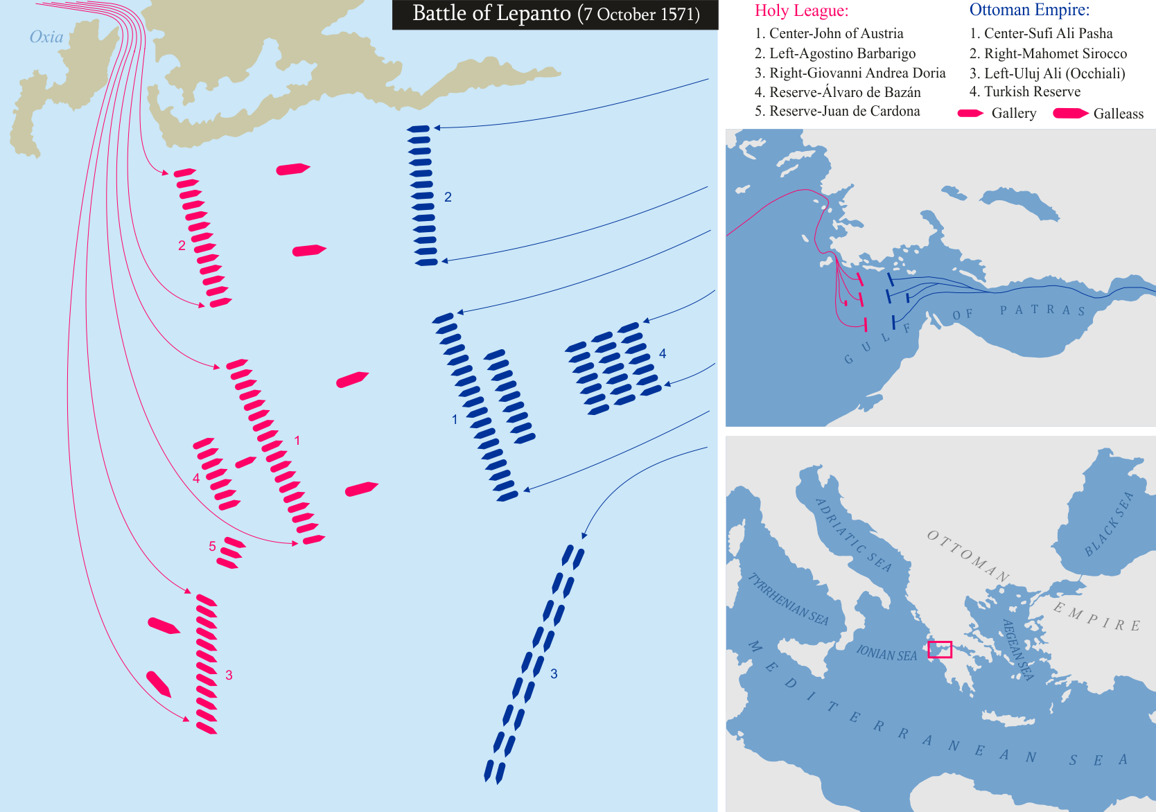 Plan of the Battle of Lepanto (7 October 1571) Based on: [1], [2], two unreferenced plans based on (or consistent with) the figure in William Oliver Stevens and Allan F. Westcott, A History of Sea Power, 1920, p. 106.